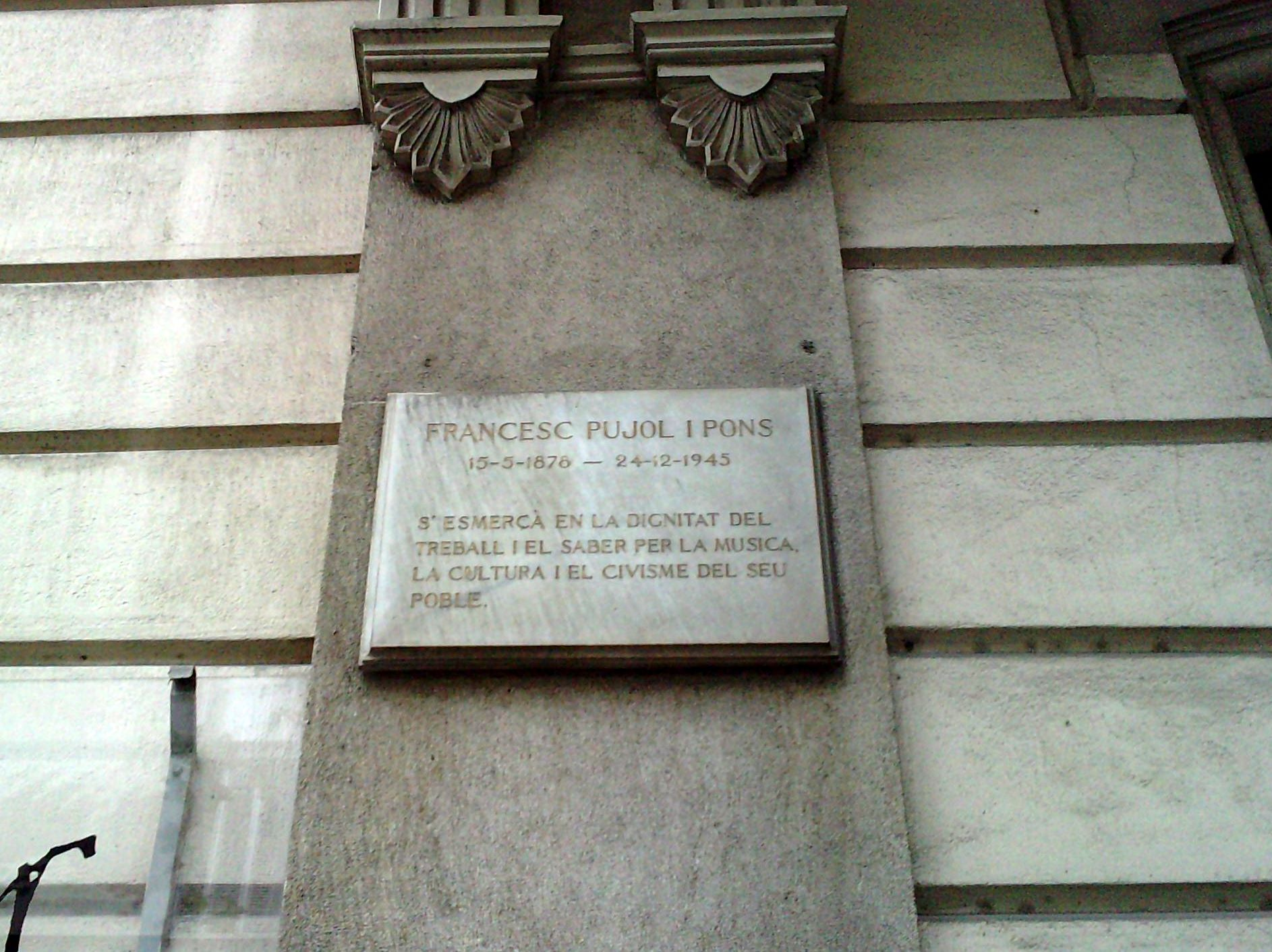 Plaque in homage to Francesc Pujol, in Barcelona